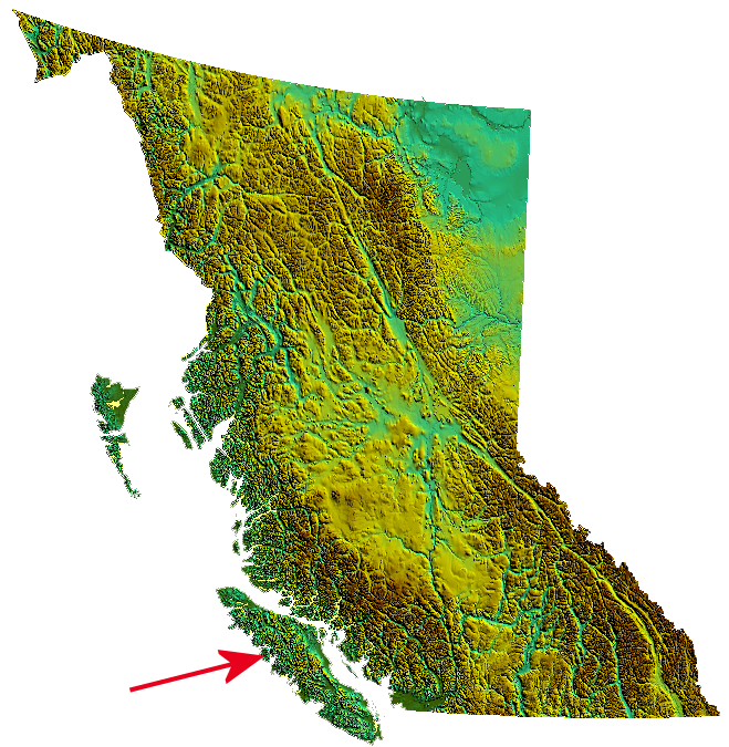 Summary == relief of British Columbia, Canada produced from USGS data== Licensing